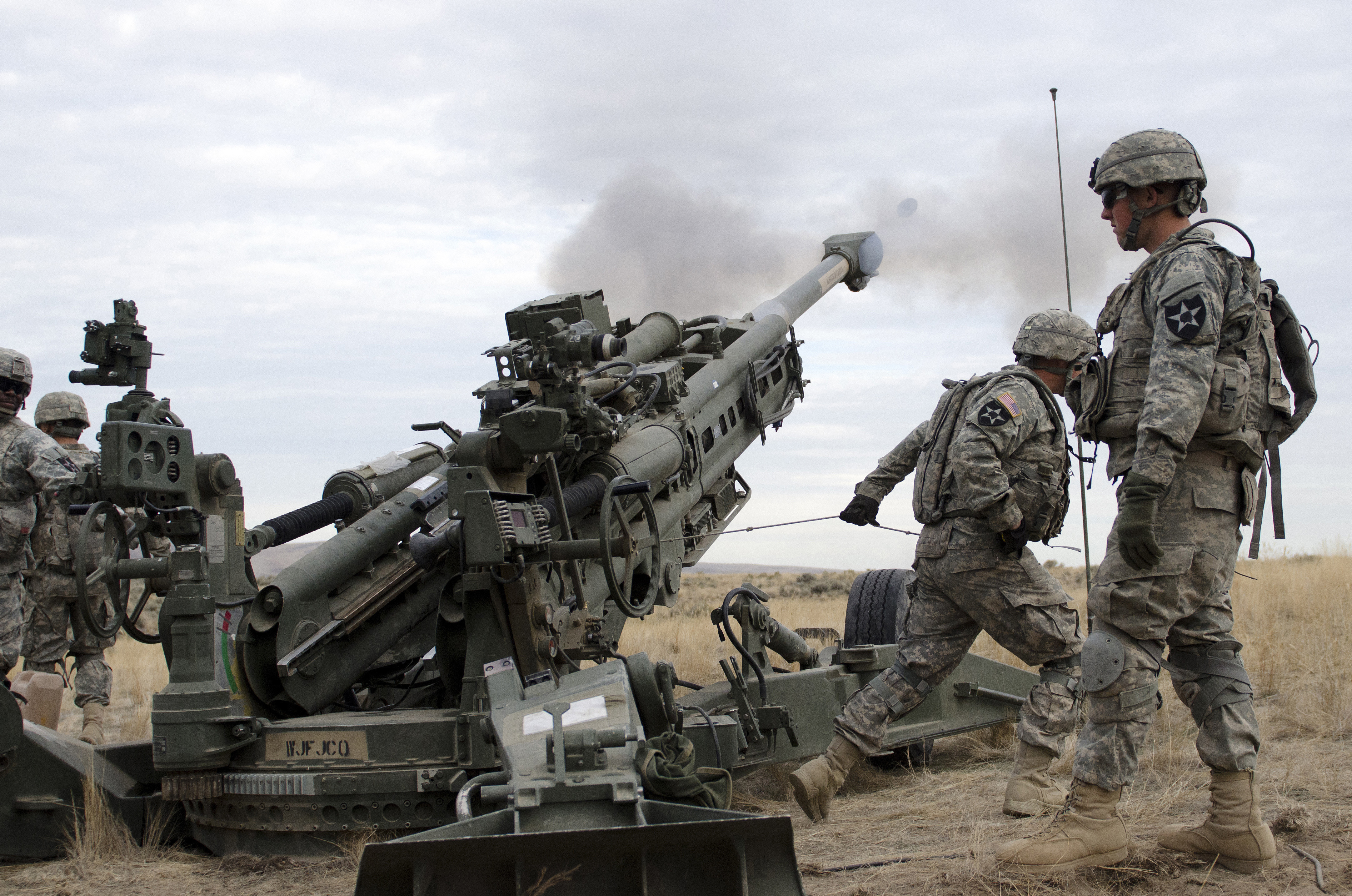 U.S. Army Spc. Rich Musser, center, pulls the lanyard on a M777A2 Howitzer cannon, launching a 155mm round downrange in support of infantry operations at Yakima Training Center, Wash., Oct. 9, 2013. Musser was assigned to Charlie Battery, 1st Battalion, 37th Infantry Regiment, 3rd Stryker Brigade Combat Team, 2nd Infantry Division, attached to the 7th Infantry Division, based at Joint Base Lewis-McChord, Wash.